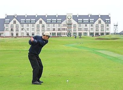 Carnousties famous 18th hole. In the distance you can see the Carnoustie Hotel